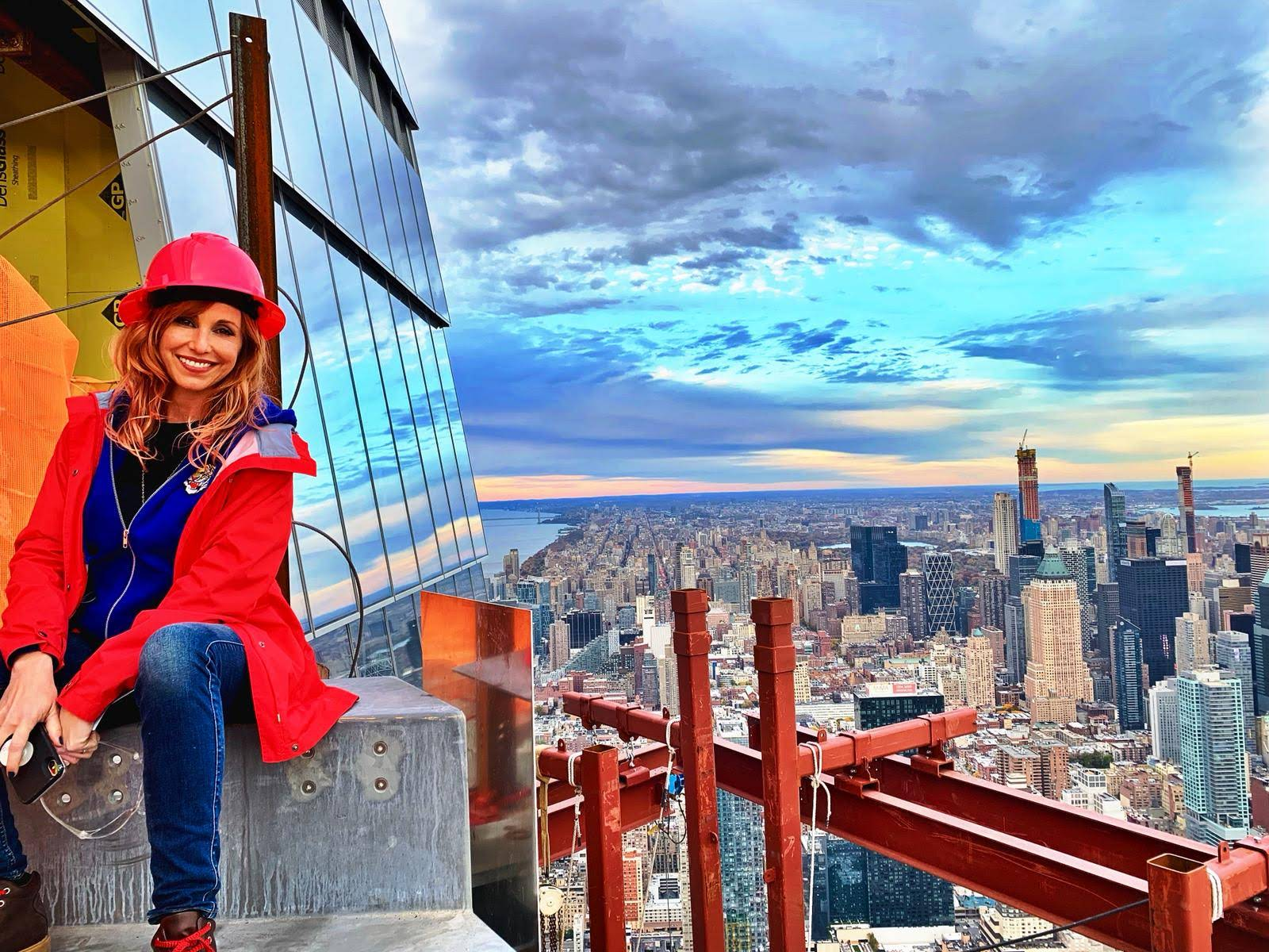 Kari Byron filming Crash Test World on location at the top of a building under construction in Hudson Yards, New York City.